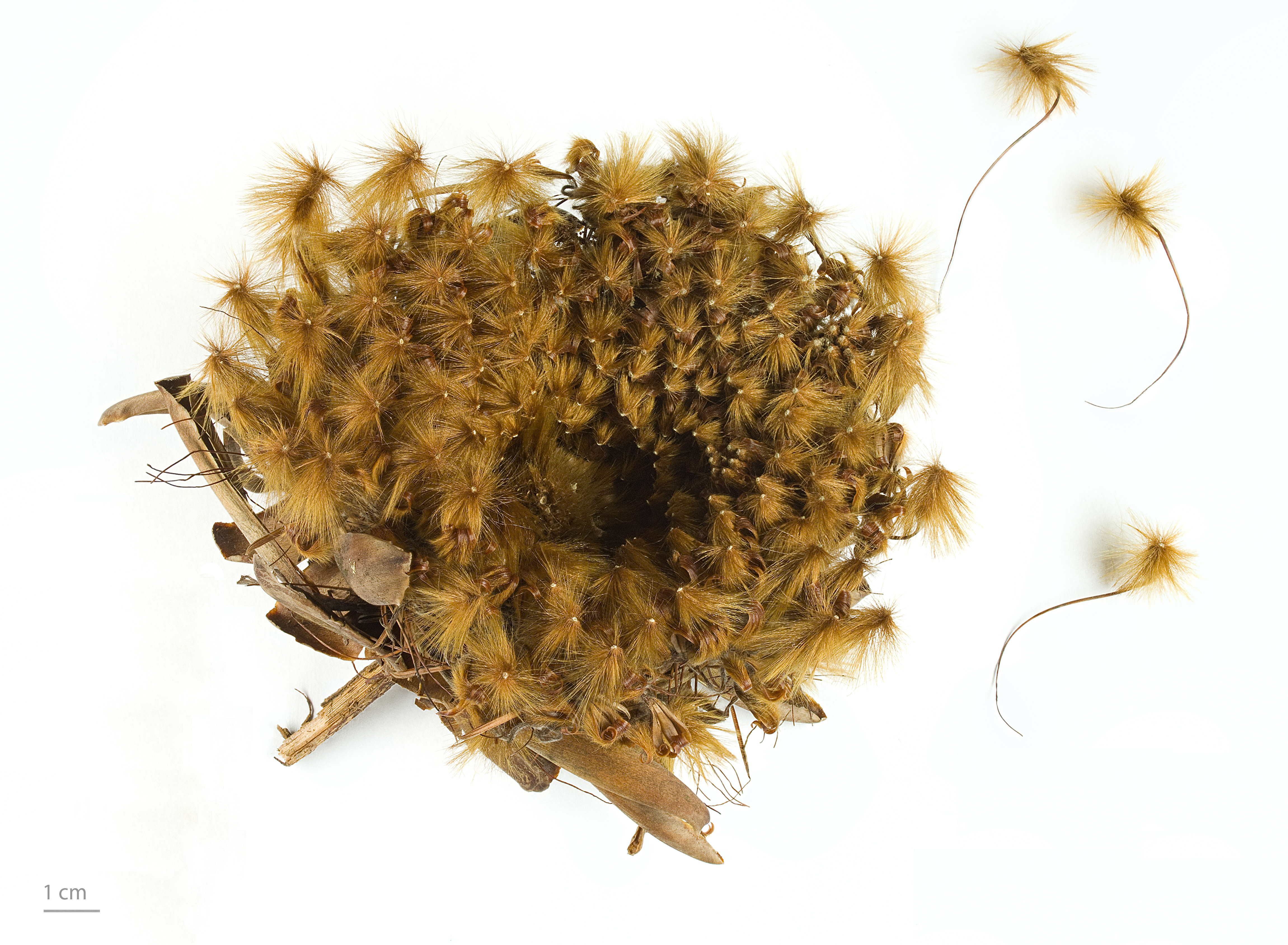 Protea madiensis , fruits and seeds